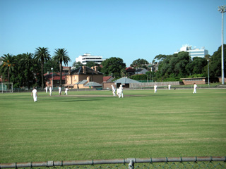 Cricket at Pratten Park with Thirning villa and Ashfield commercial centre in the background